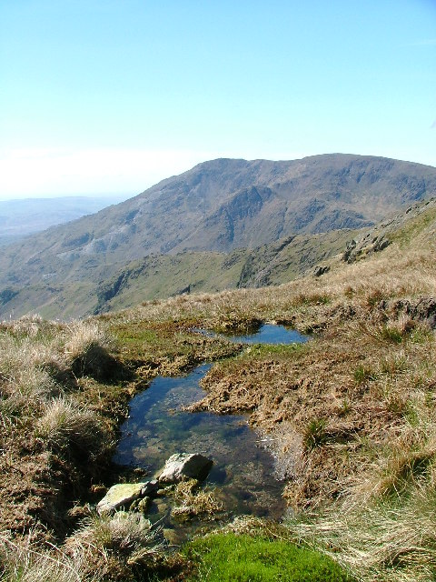 Stream Source, Red Dell Beck.